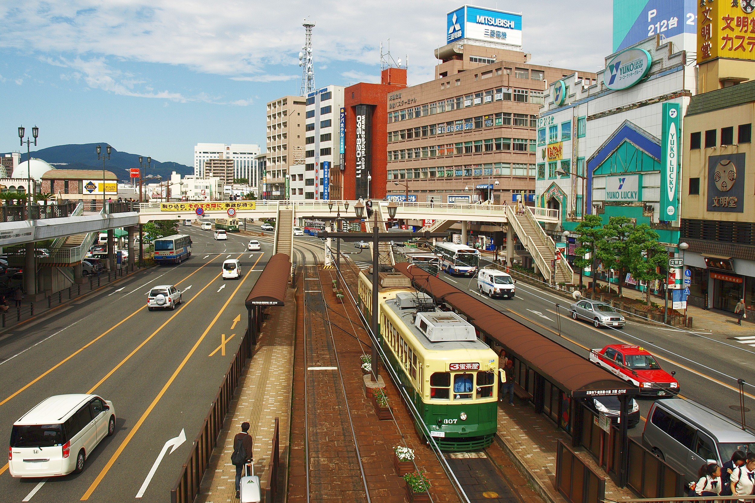 Nagasaki-ekimae Station of Nagasaki Electric Tramway in Nagasaki City, Nagasaki Prefecture, Japan